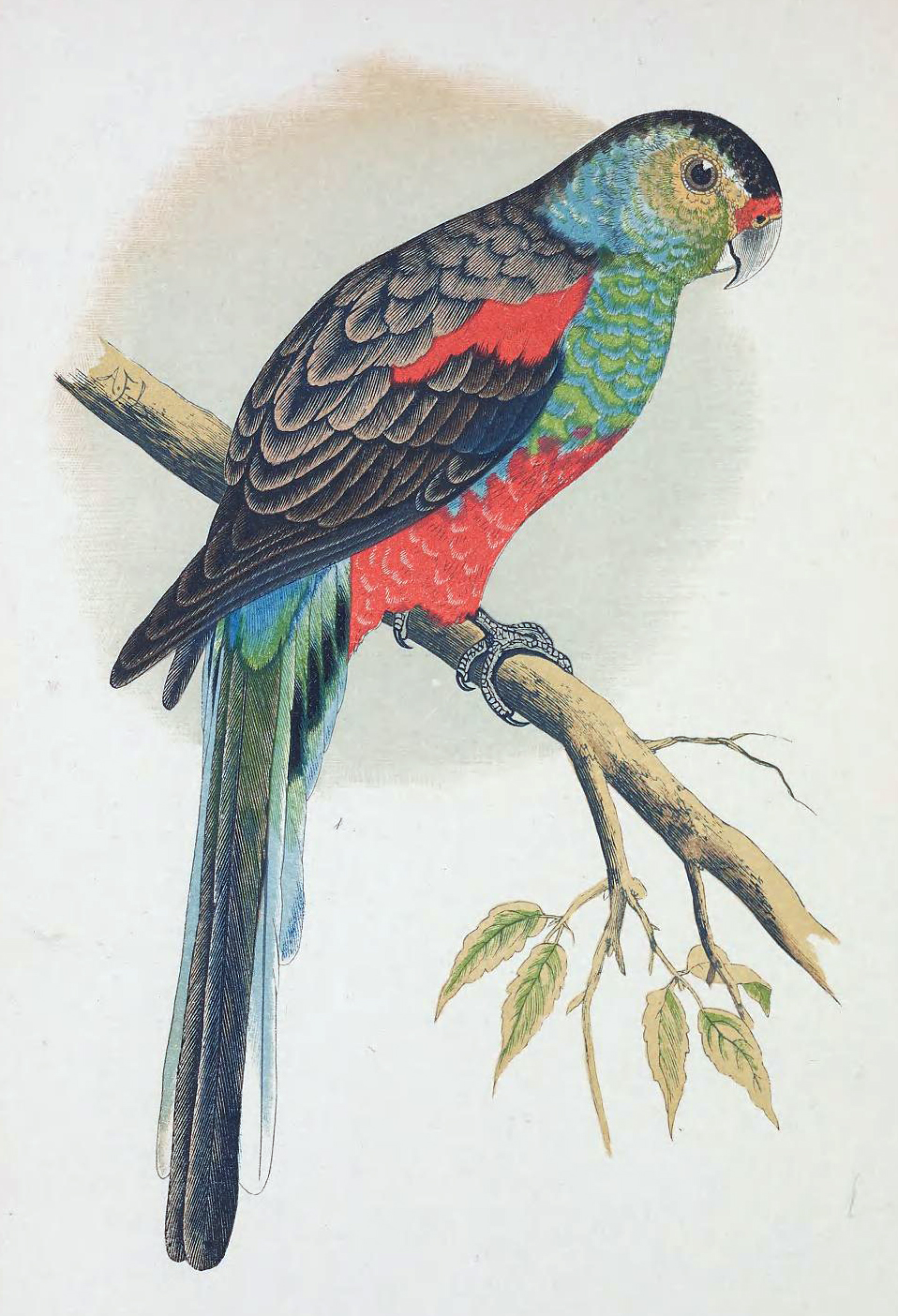 Print of the Beautiful or Paradise Parakeet from Parrots (1884-87) by W T Greene.